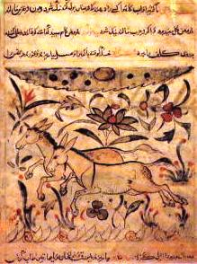 Page from the Book of Animals by African Arab naturalist and evolutionist al Jahiz.